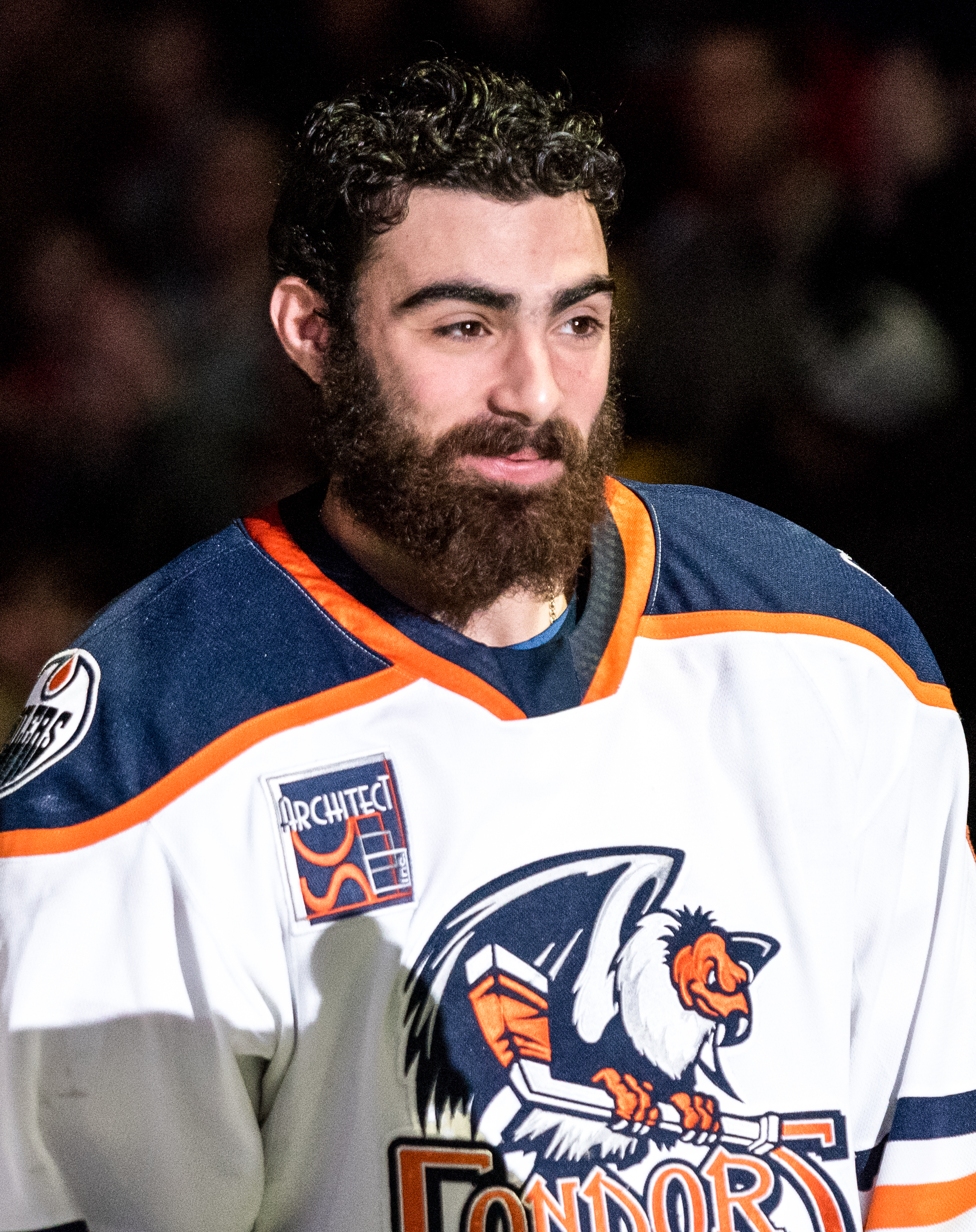 Photo by: China Wong/AHL